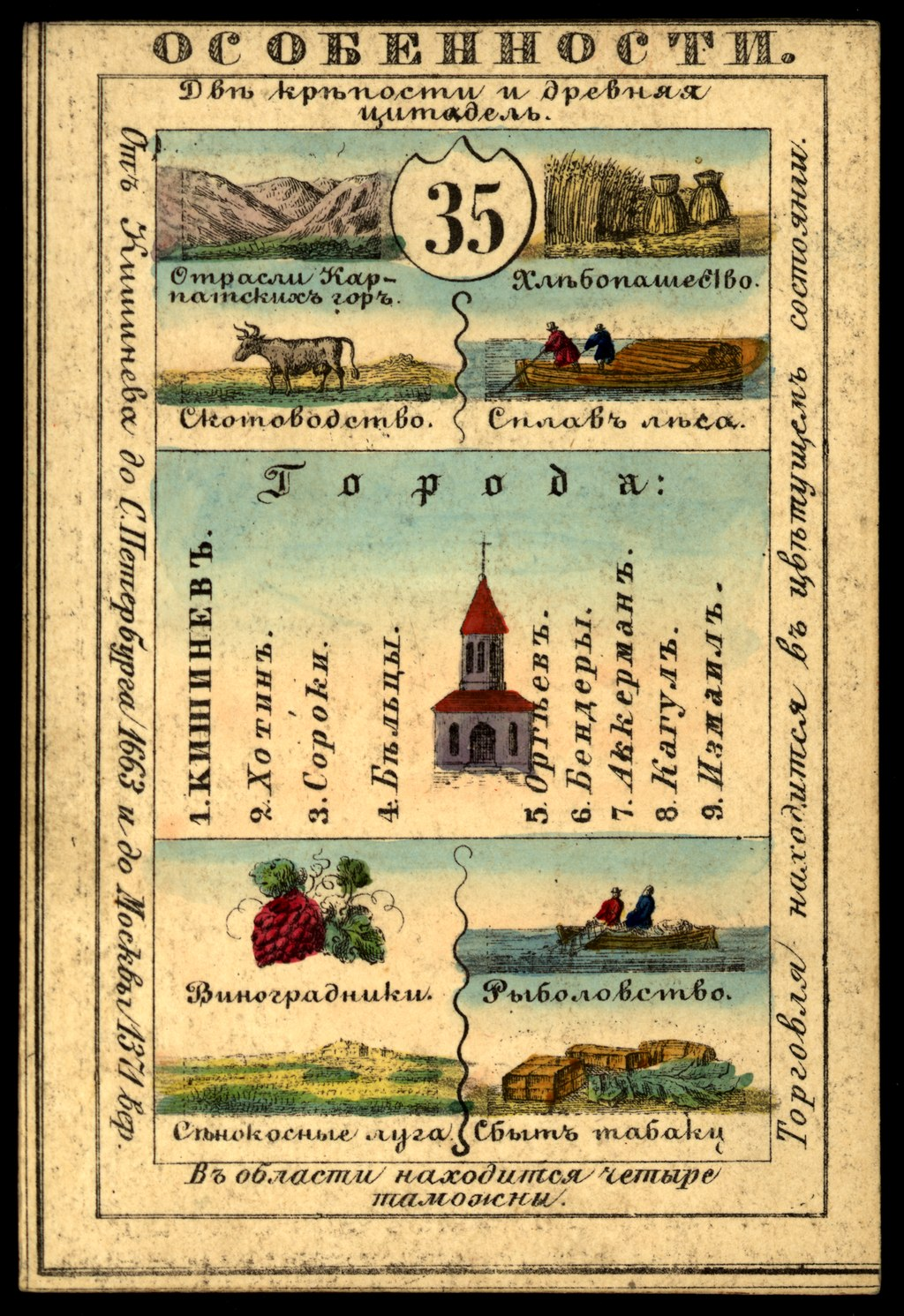 This card is one of a souvenir set of 82 illustrated cards–one for each province of the Russian Empire as it existed in 1856. Each card presents an overview of a particular province’s culture, history, economy, and geography. The front of the card (shown here) depicts such distinguishing features as rivers, mountains, major cities, and chief industries. The back of each card contains a map of the province, the provincial seal, information about the population, and a picture of the local costume of the inhabitants. The province of Bessarabia depicted on this card roughly corresponds to the territory of present-day Moldova.